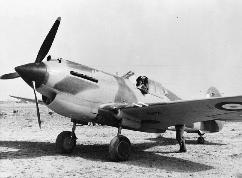 Royal Air Force Operations in the Middle East and North Africa, 1939-1943 Curtiss Tomahawk Mark IIB (named "Chaka") of No. 5 Squadron SAAF, piloted by Lieutenant R C Hirst, on the ground at LG 121, Egypt. From this landing ground east of Sidi Barrani, the Squadron flew its first operational sorties in March 1942, being responsible for the air defence of Egypt between Mersa Matruh and Sollum, and for the protection of convoys resupplying Tobruk.